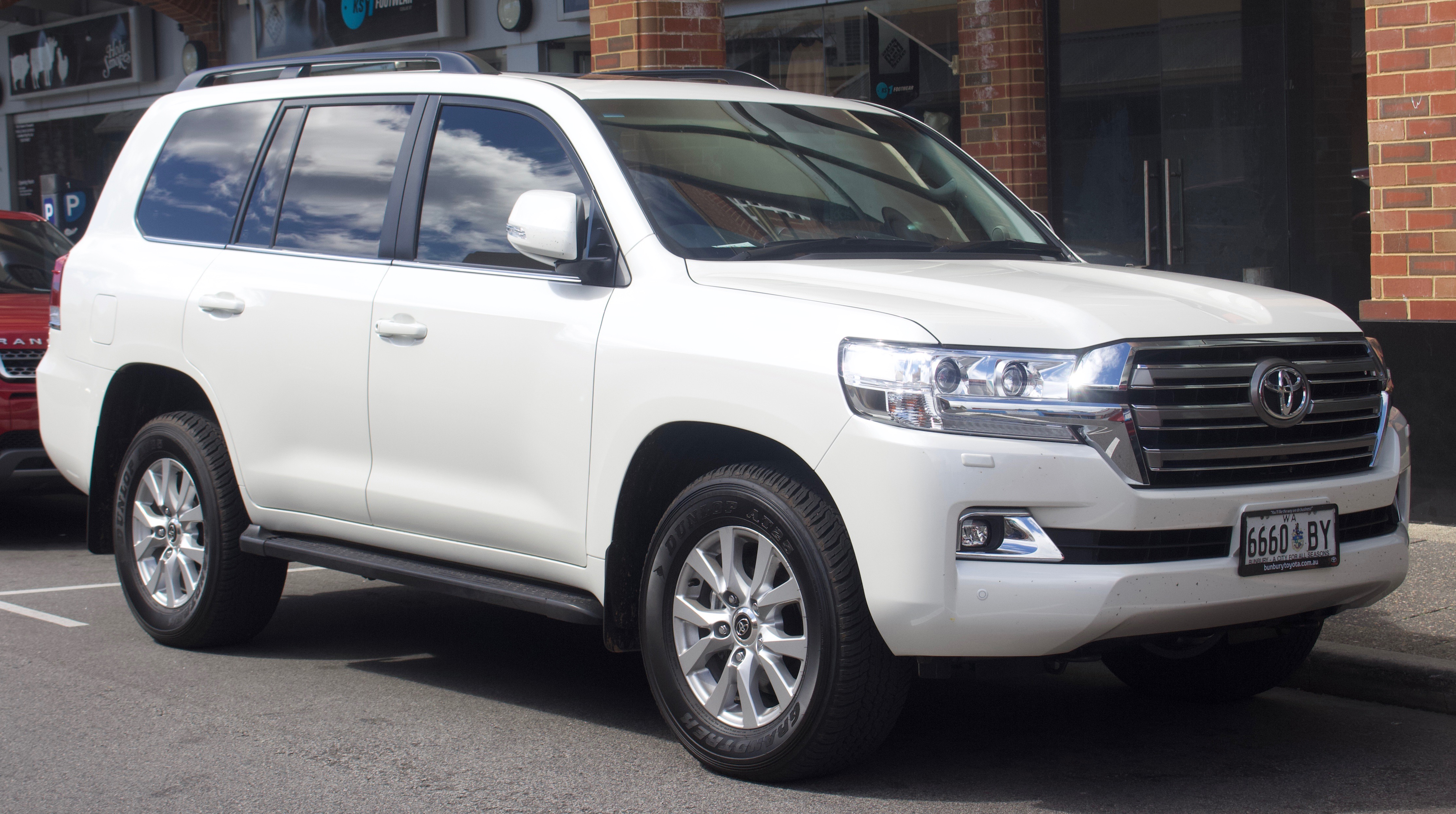 2016-2018 Toyota Land Cruiser (VDJ200R) VX wagon. Photographed in Fremantle, Western Australia, Australia.